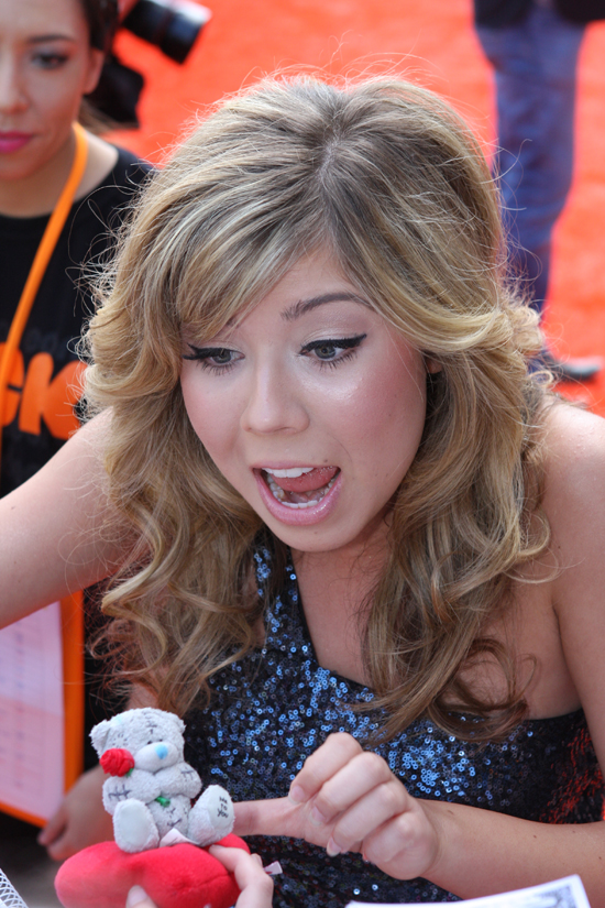 Jennette McCurdy at Nickelodeon Australian Kids' Choice Awards 2011